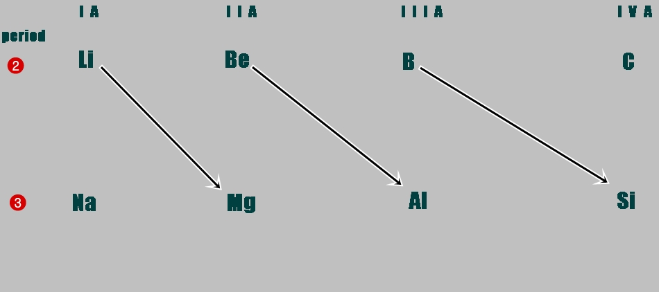 pictorial representation of diagonal relationship.